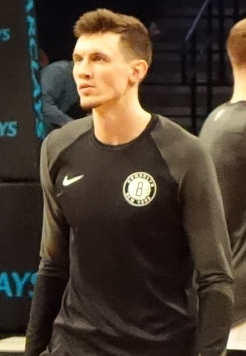 Brooklyn Nets forward Rodions Kurucs warming up prior to the NBA Preseason game between the Brooklyn Nets and the New York Knicks at the Barclays Center on October 3, 2018. Kurucs, from Latvia, was the Nets' second round draft pick this year, after playing for FC Barcelona.